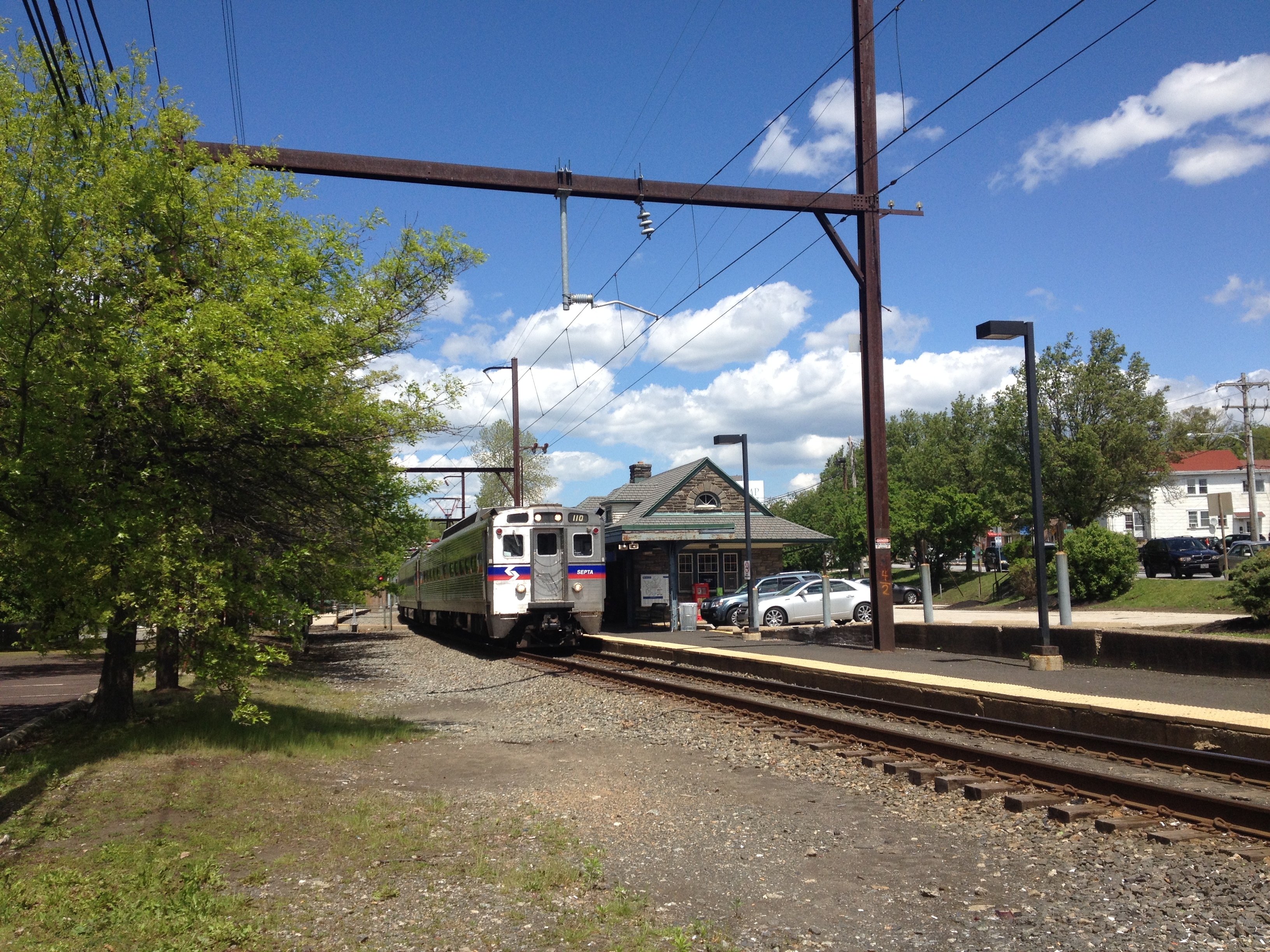 A SEPTA Warminster Line train bound for Center City Philadelphia stops at the Willow Grove Station in Willow Grove, Pennsylvania.